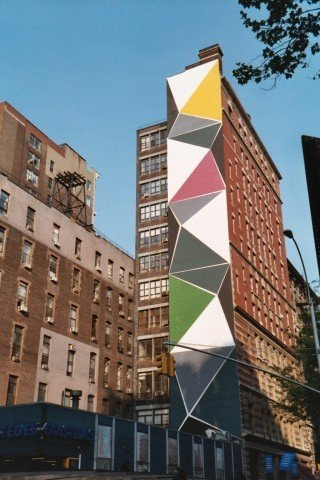 Thirteen-story geometric abstract wall painting by the American artist Tania, circa 1970; at corner of Mercer St. & 3rd St. in Greenwich Village, New York. The wall was commissioned by City Walls, Inc.